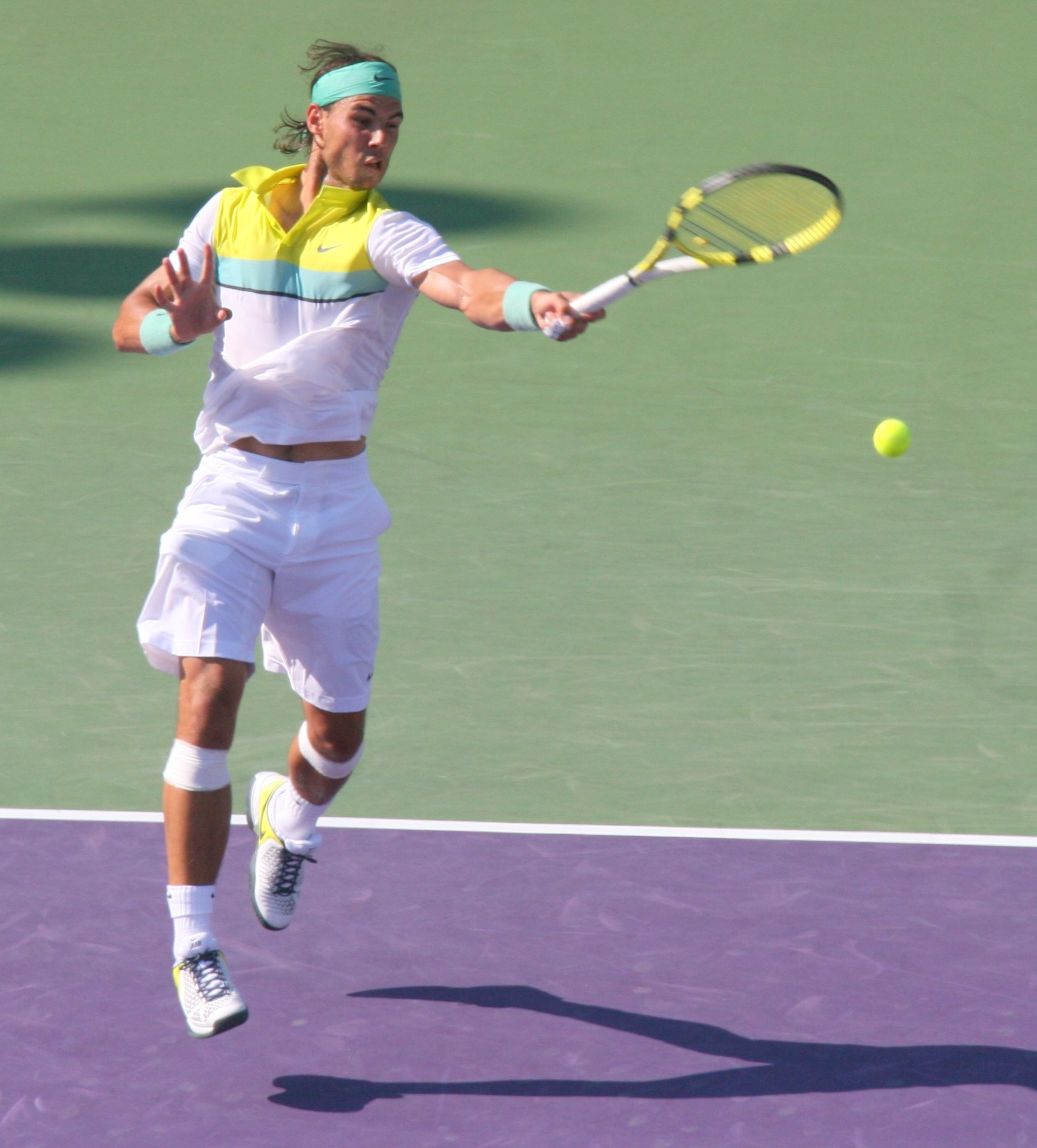 Rafael Nadal at 2009 Sony Ericsson Open, Miami, Florida, United States